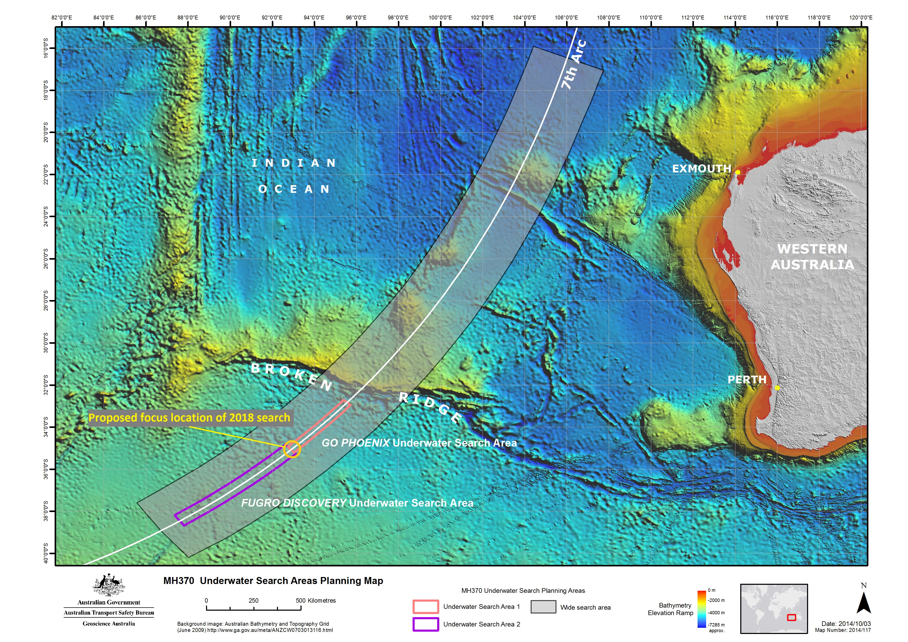 Map of the search area for Malaysia Airlines Flight 370, with proposed 2018 search zone added to original ATSB image.